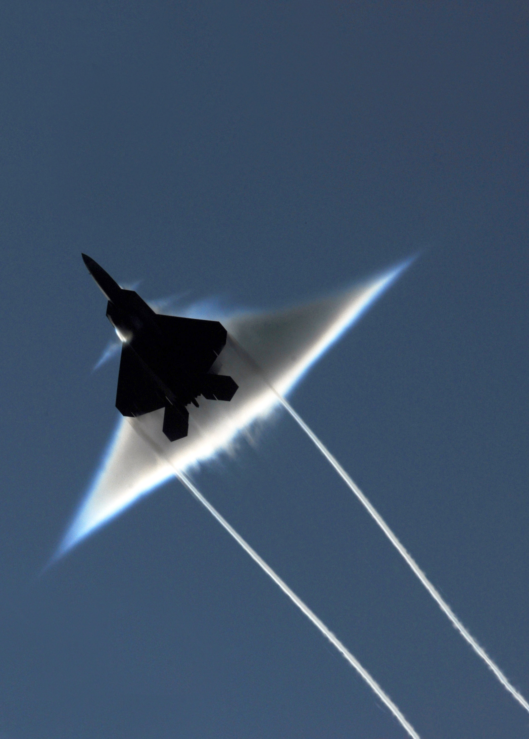 090622-N-7780S-014 GULF OF ALASKA An Air Force F-22 Raptor executes a transonic flyby over the flight deck of the aircraft carrier USS John C. Stennis (CVN 74). John C. Stennis is participating in Northern Edge 2009, a joint exercise focusing on detecting and tracking units at sea, in the air and on land.